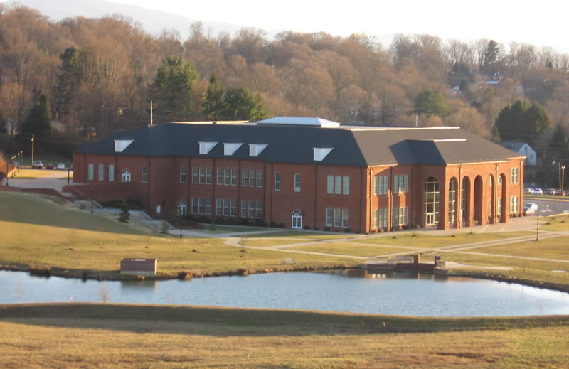 taken by Christopher Powers (c) 2006. You may use this photo for any purpose. If in original form, please credit Christopher Powers when using it. Thank you.